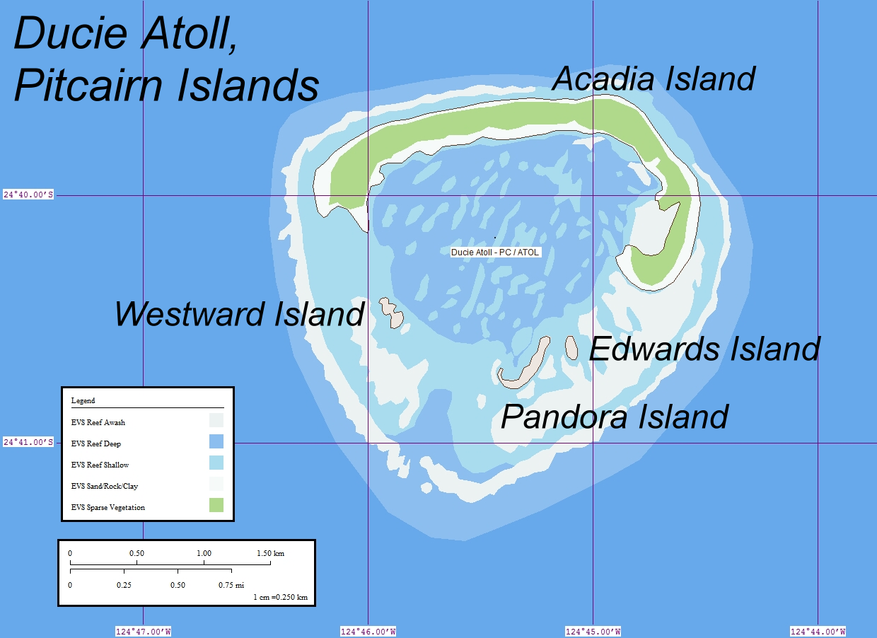 Map of Ducie Island (Pitcairn Islands) in the Pacific Ocean